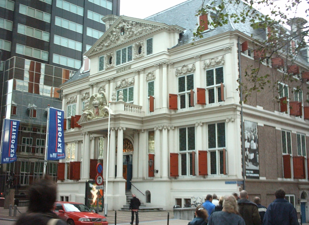 Rotterdam: Historical museum